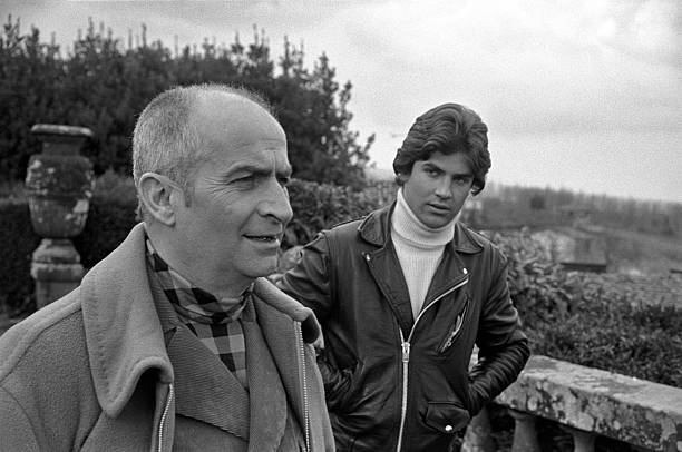 French actor Louis de Funès is beside his son Olivier with whom he acts in the comedy movie L'homme orchestre, by French director Serge Korber. Bassano Romano (VT), Italy, March 1970. (Photo by Marisa Rastellini\Mondadori Portfolio via Getty Images)"